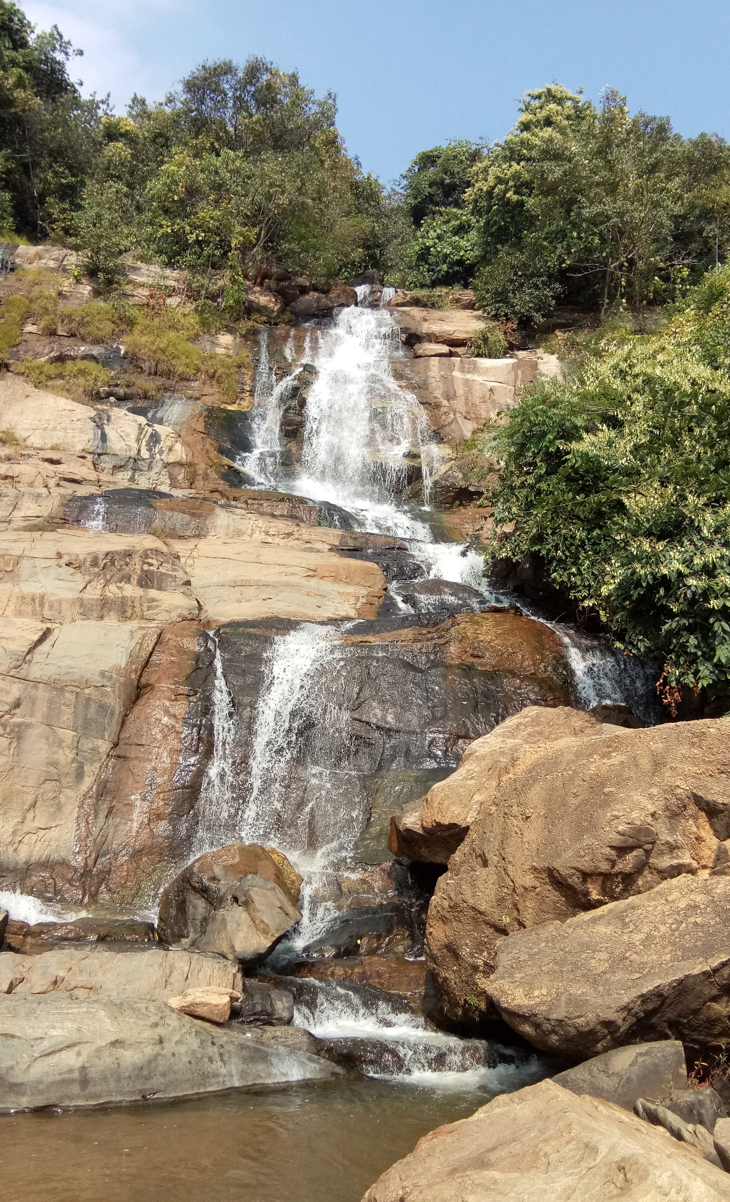 Highest Falls of the South Bengal